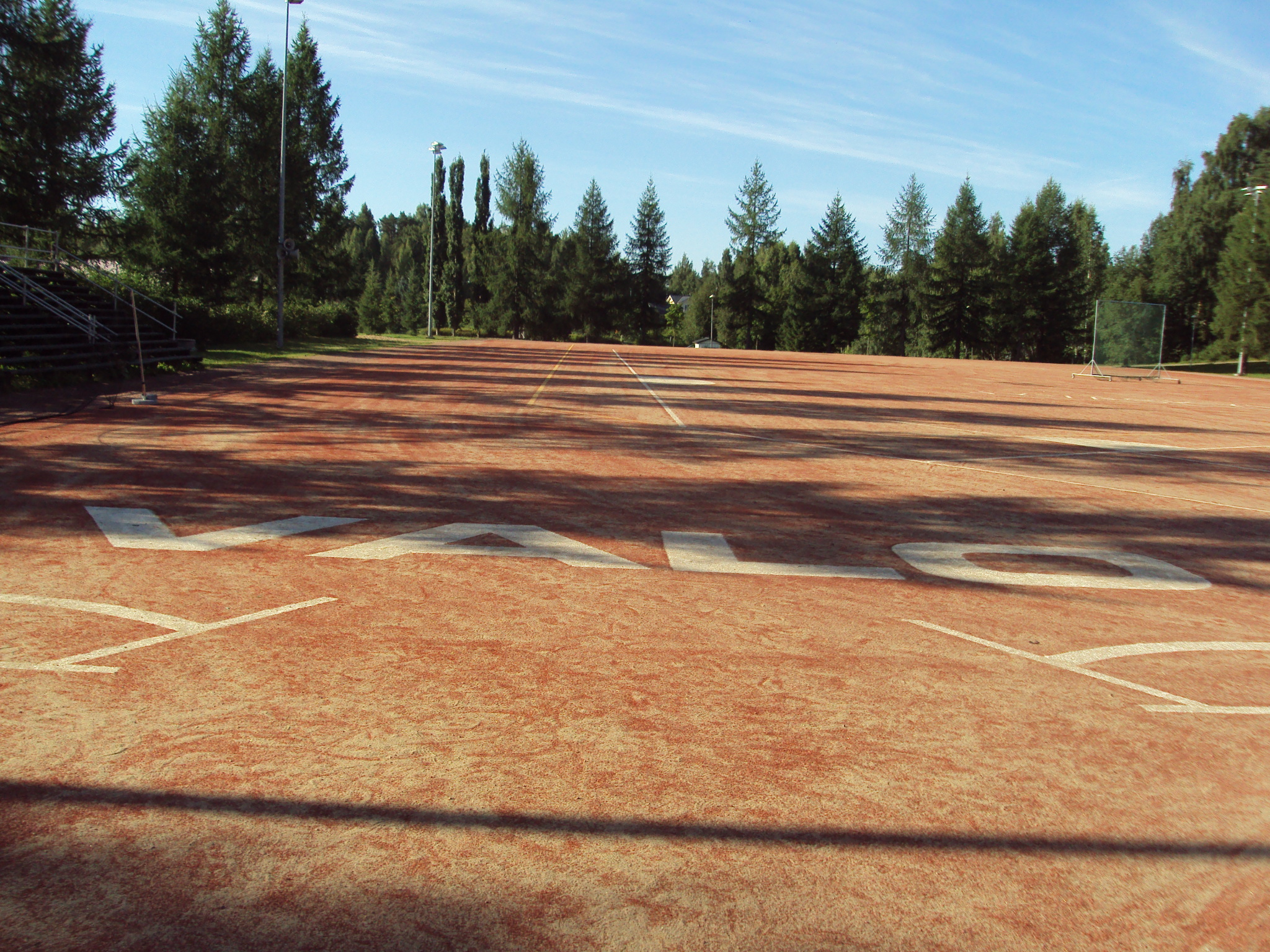 Pesäpallo (Finnish baseball) field in Yrttisuo, Jyväskylä, Finland. This is the home venue for baseball team Jyväskylän Valo.